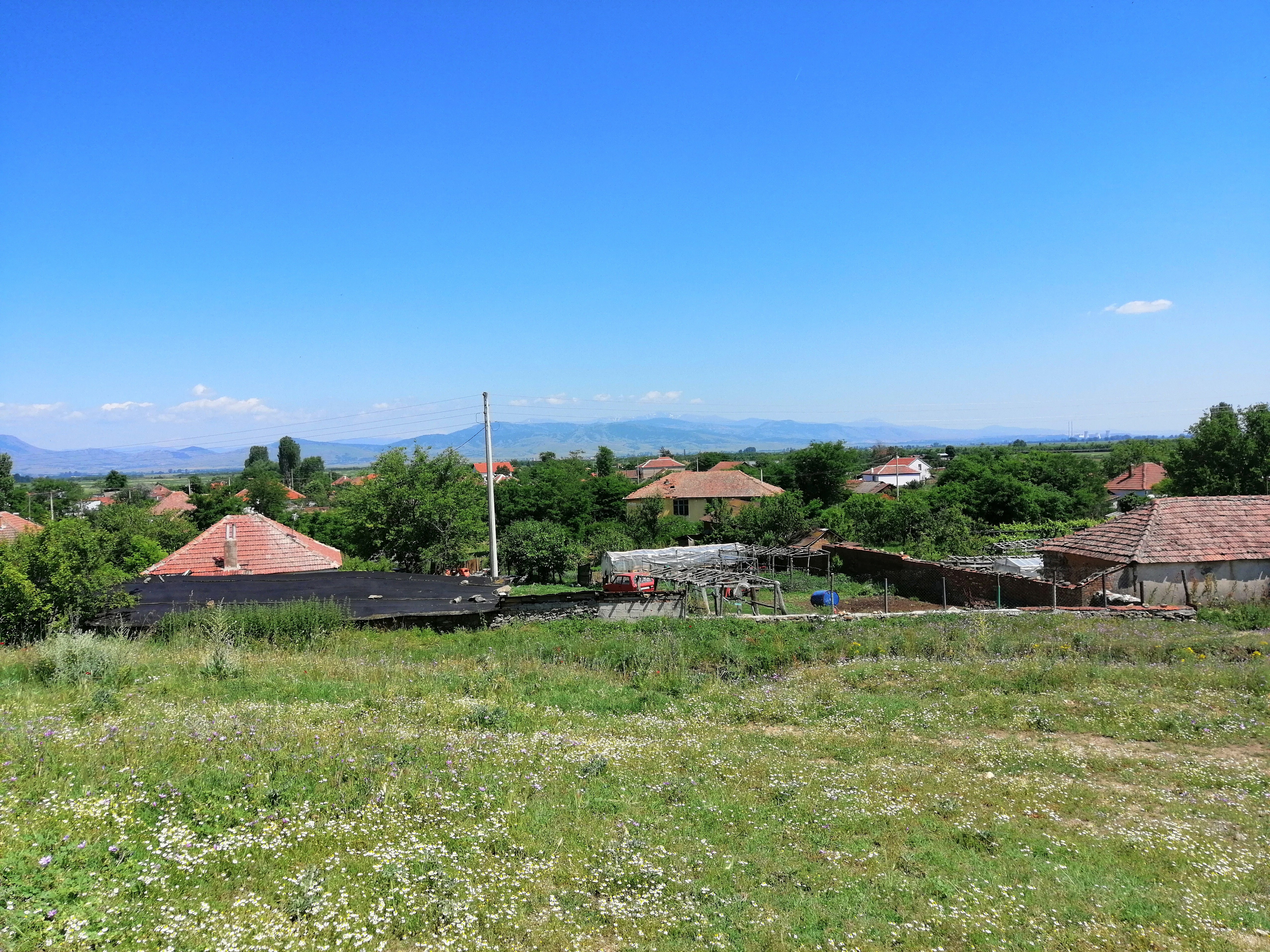 View of the village Vašarejca